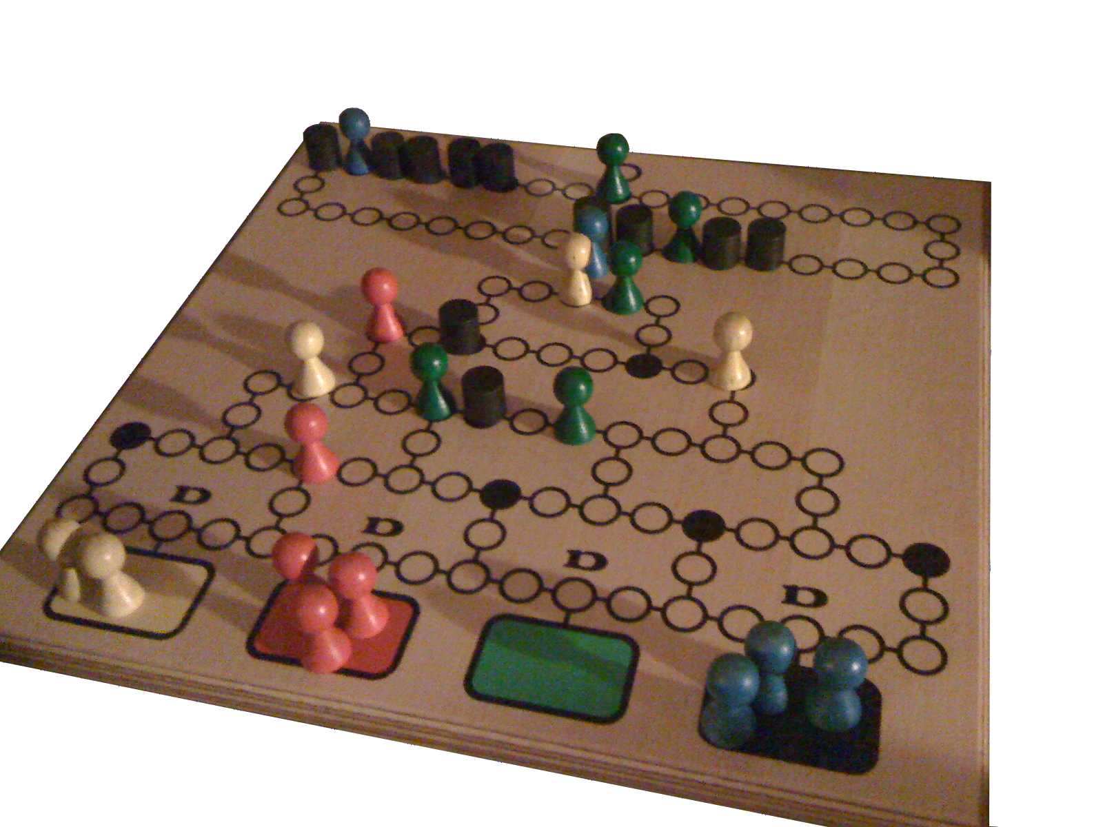 A game of Barricade (Malefiz)